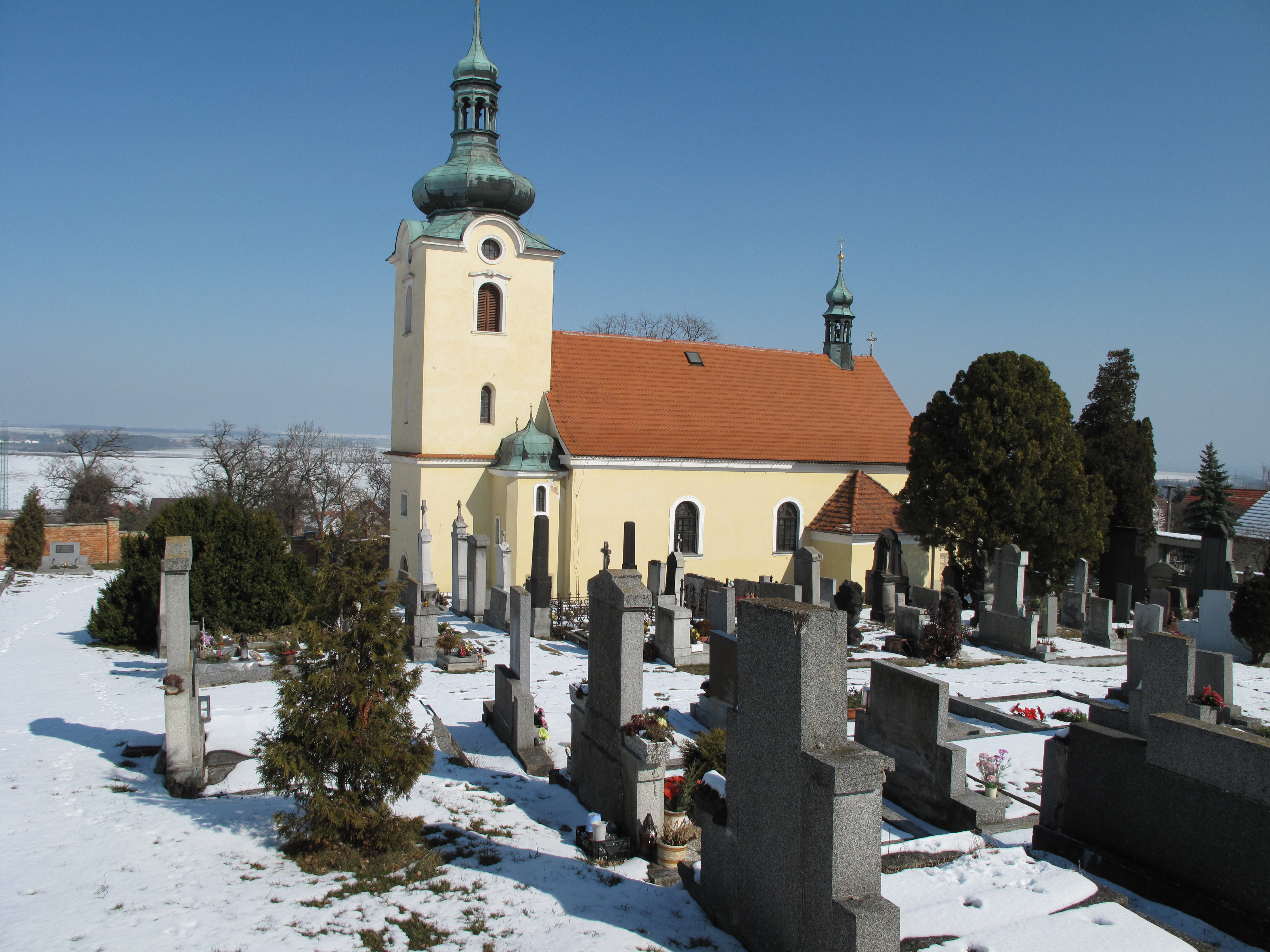 Church of St. Luke in Dřínov village, Kladno District, Czech Republic.